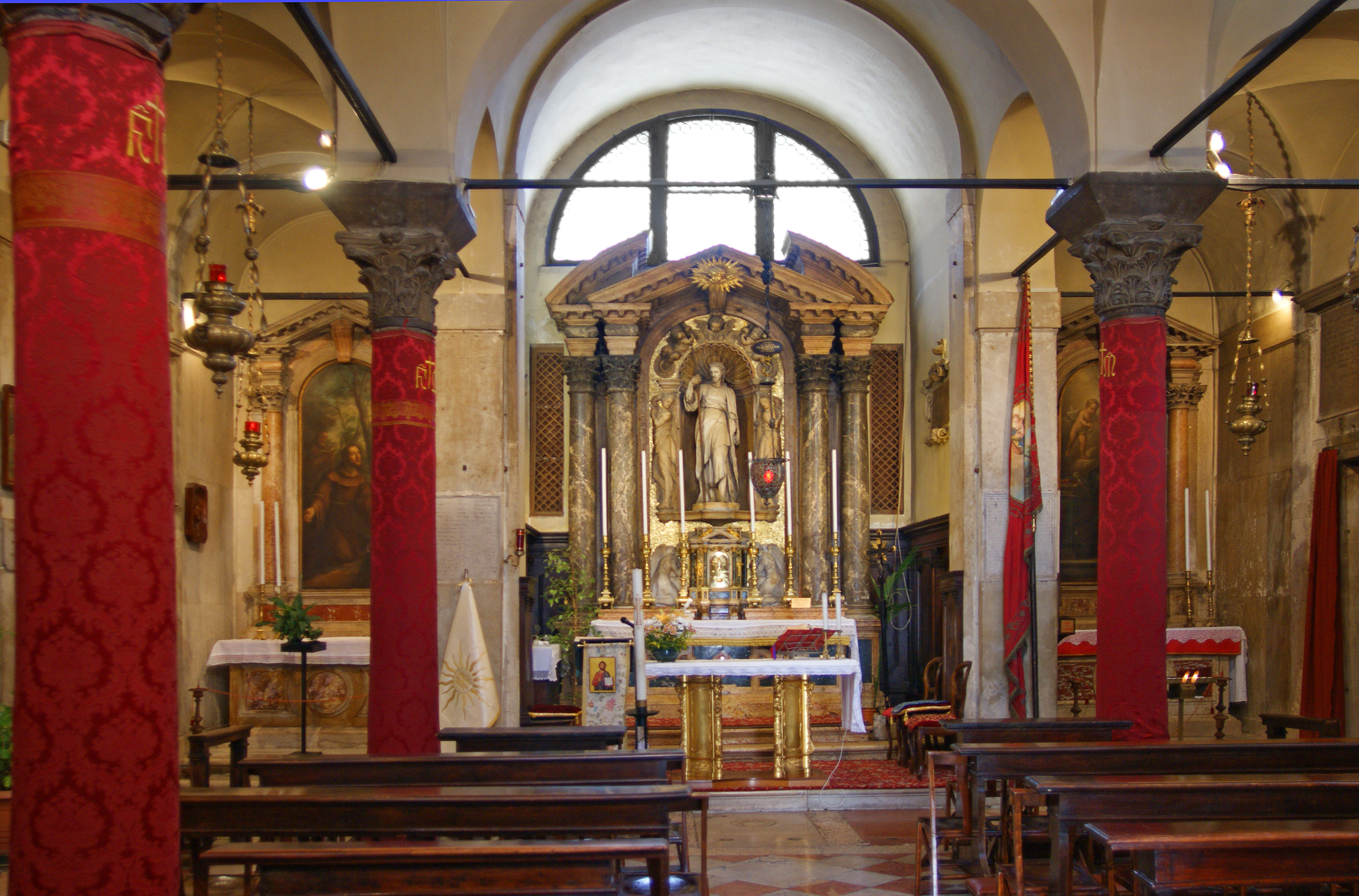 Church of San Giacomo di Rialto (Interior) Venice.